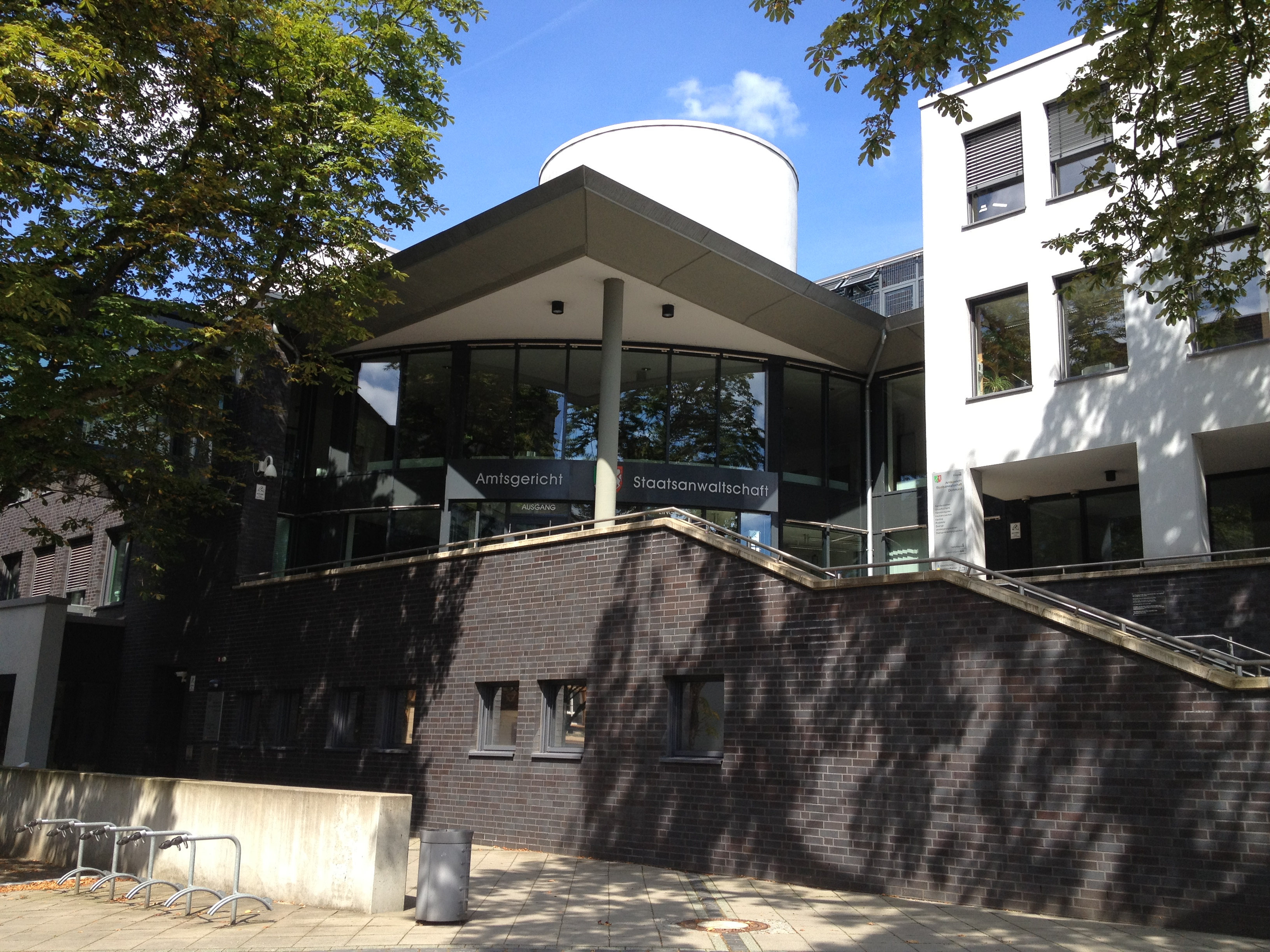 Crown Prosecution Service Dortmund